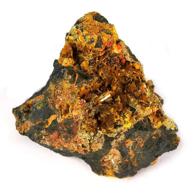 Becquerelite, Masuyite, Fourmarierite, Uranophane - alpha Locality: Shinkolobwe Mine (Kasolo Mine), Shinkolobwe, Central area, Katanga Copper Crescent, Katanga (Shaba), Democratic Republic of Congo (Zaïre) (Locality at ) Size: 6.2 x 5.8 x 3.1 cm. This large, rich specimen has three species for which this is the type locality: Masuyite (in red spherical aggregates), Fourmarierite (dark red/umber crystals underlying the Becquerelite and embedded in the matrix), and superb, large sprays of Becquerelite with crystals to a whopping 5mm. The matrix is uraninite.